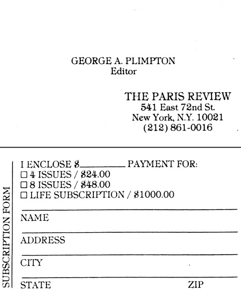 George Plimpton's Business Card (The Paris Review)